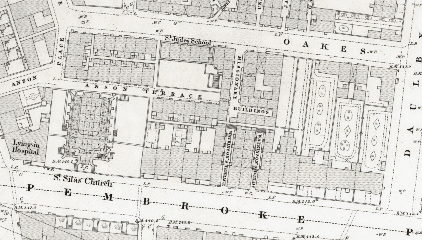 Ordnance Survey map from 1850 showing Pembroke Place in Liverpool, England